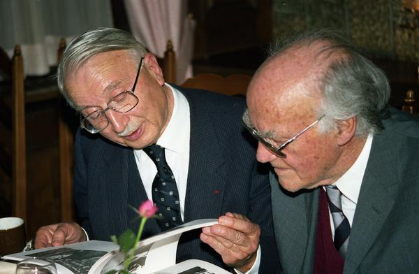 Henri Cartan (left) and Peter Thullen (right) at Friburg (Switzerland) University in 1987 in the 80th birthday of Peter Thullen